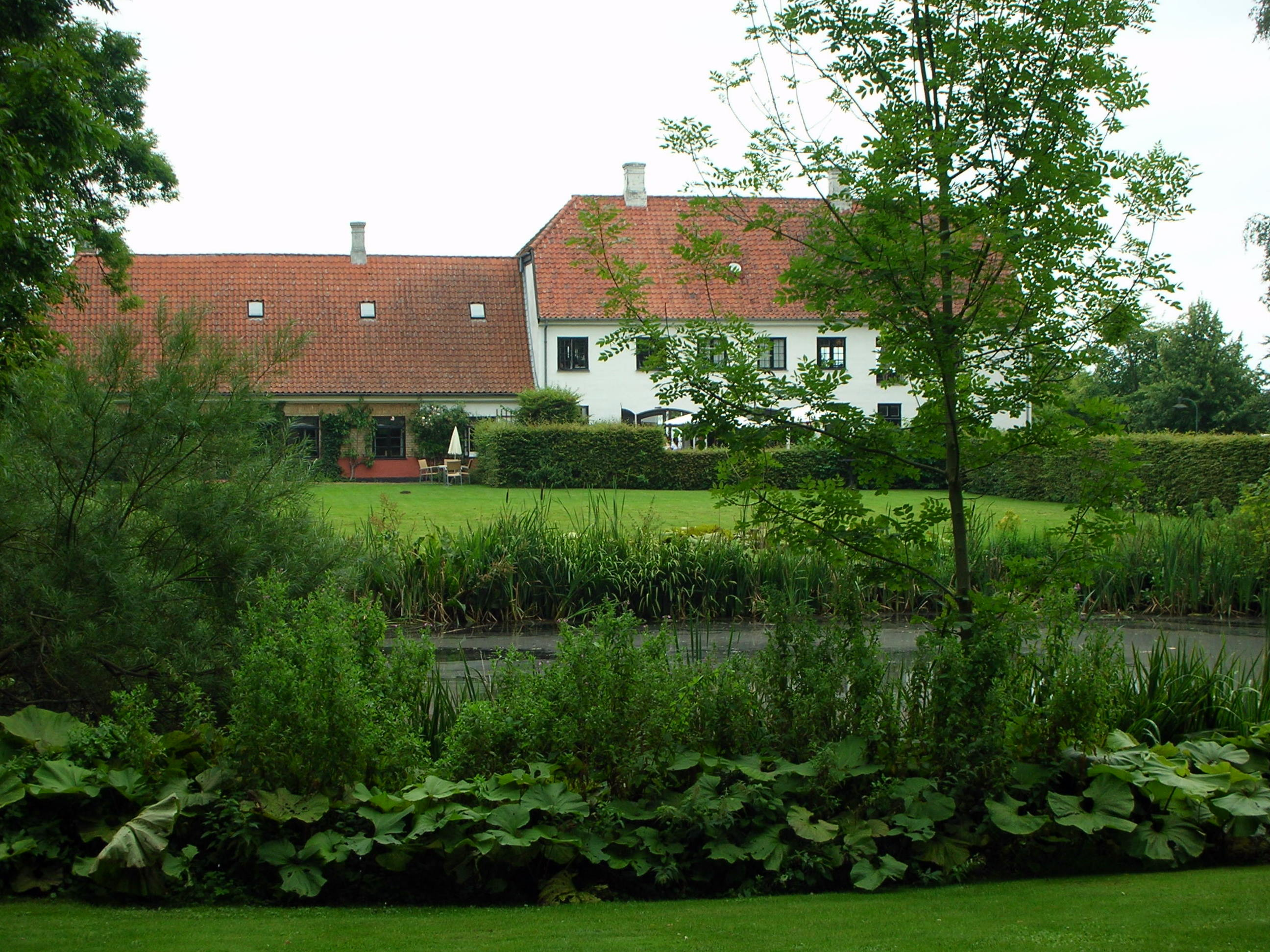 Karen Blixen Museum, Rungsted Kyst, Denmark.